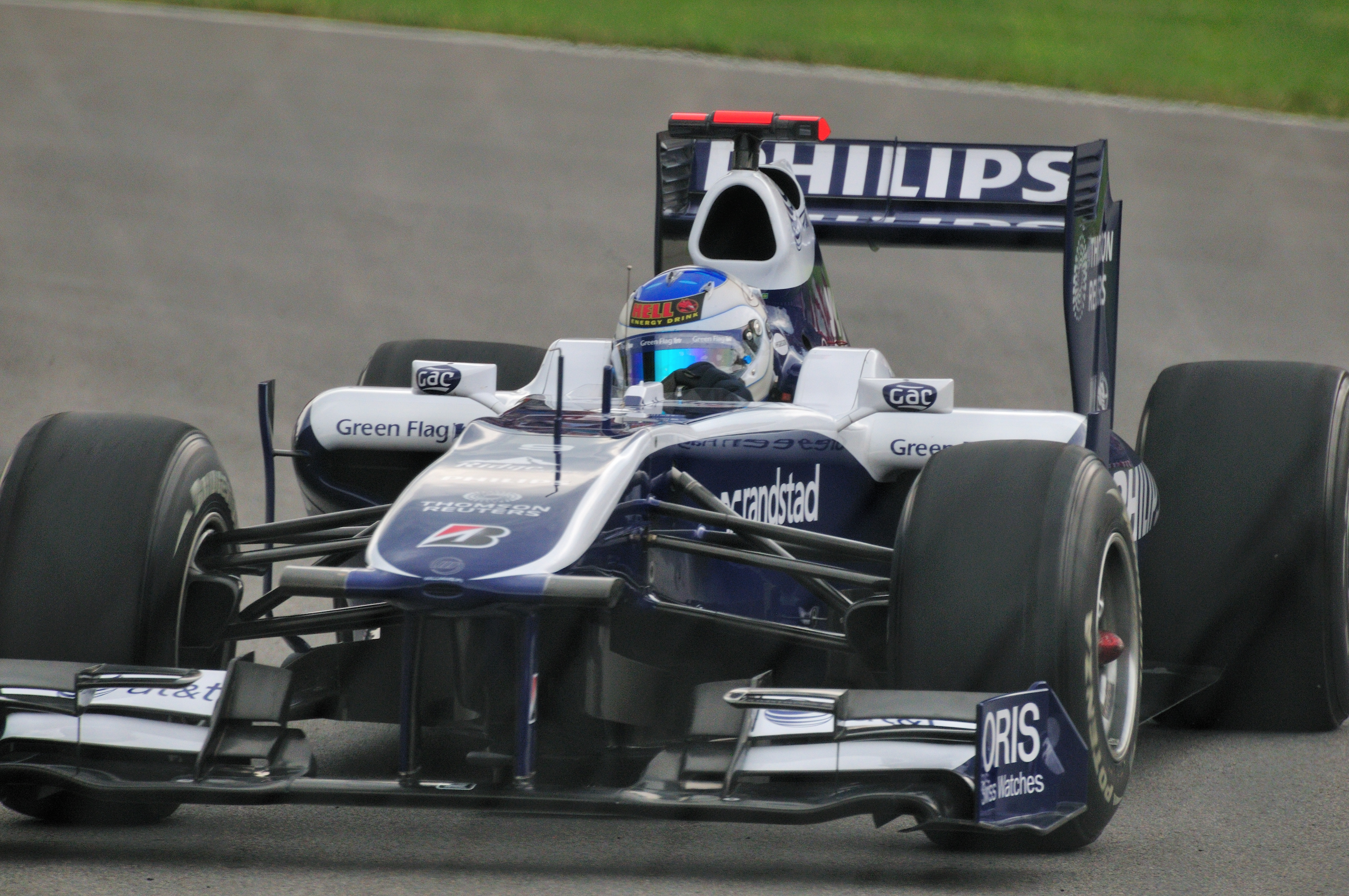 Williams driver Rubens Barrichello of Brazil (2010 Canadian GP)